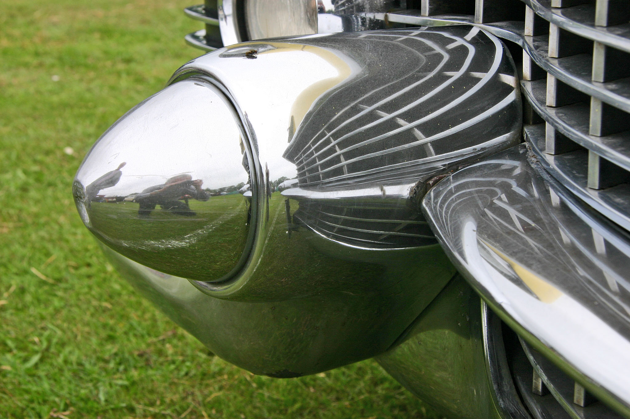 Cadillac Coupe deVille 1954 Bumper (fender)